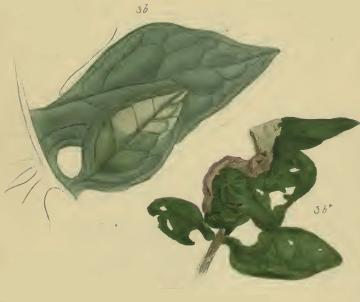 Stainton’s Natural History of the Tineina (1855–1873): Scrobipalpa costella mined and discoloured leaves of Solanum dulcamara